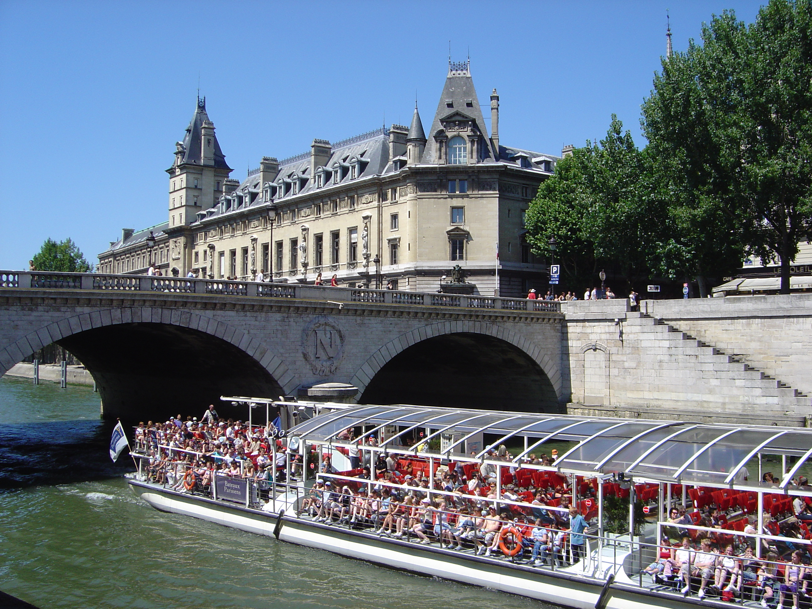 Fly boat going under Pont "Saint Michel" in Paris. In the background, there is an very old castle, it's the Hall of Justice.